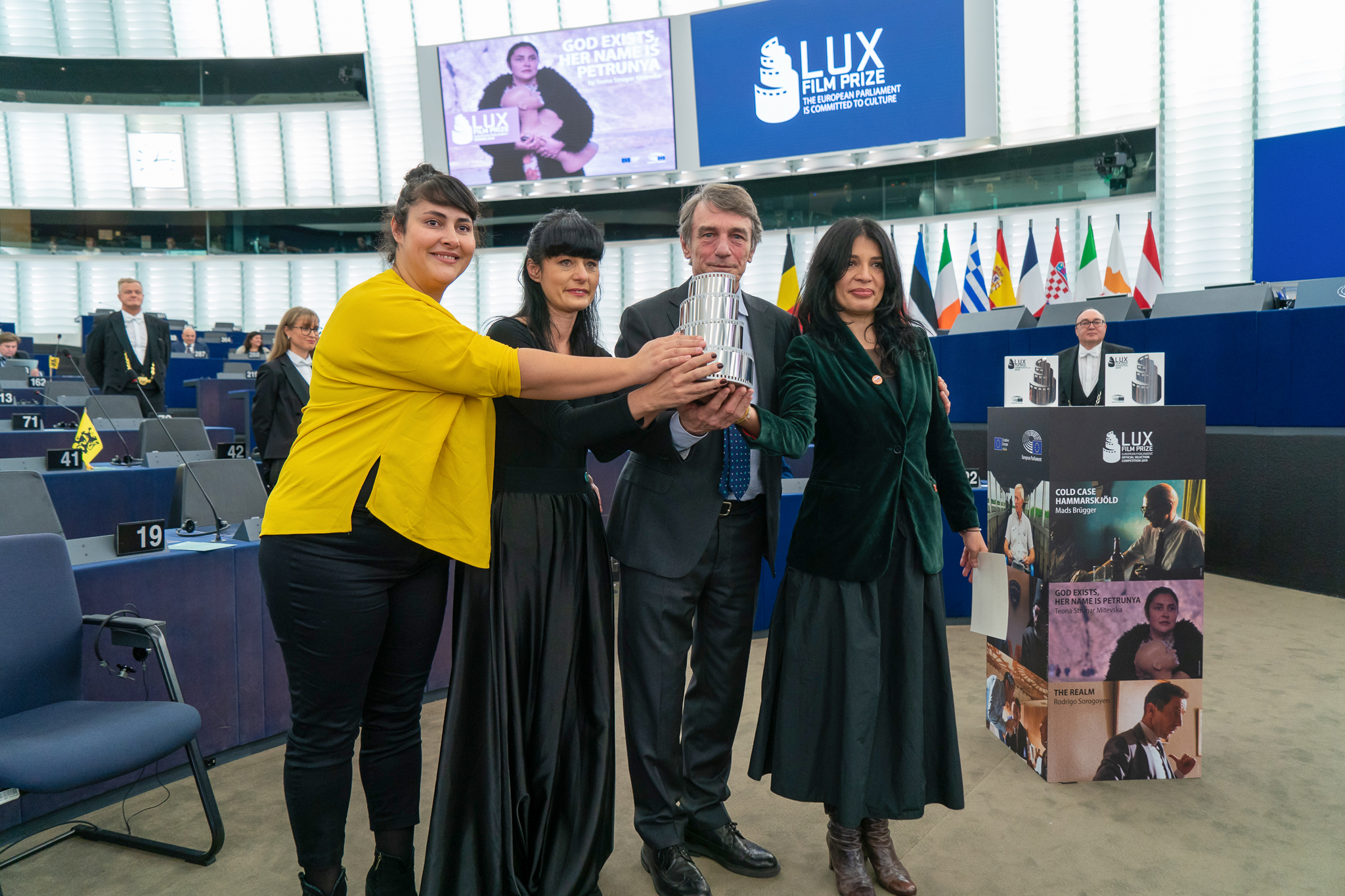 This photo is free to use under Creative Commons license CC-BY-4.0 and must be credited: "CC-BY-4.0: © European Union 2019 – Source: EP". No model release form if applicable. For bigger HR files please contact: webcom-flickr(AT)